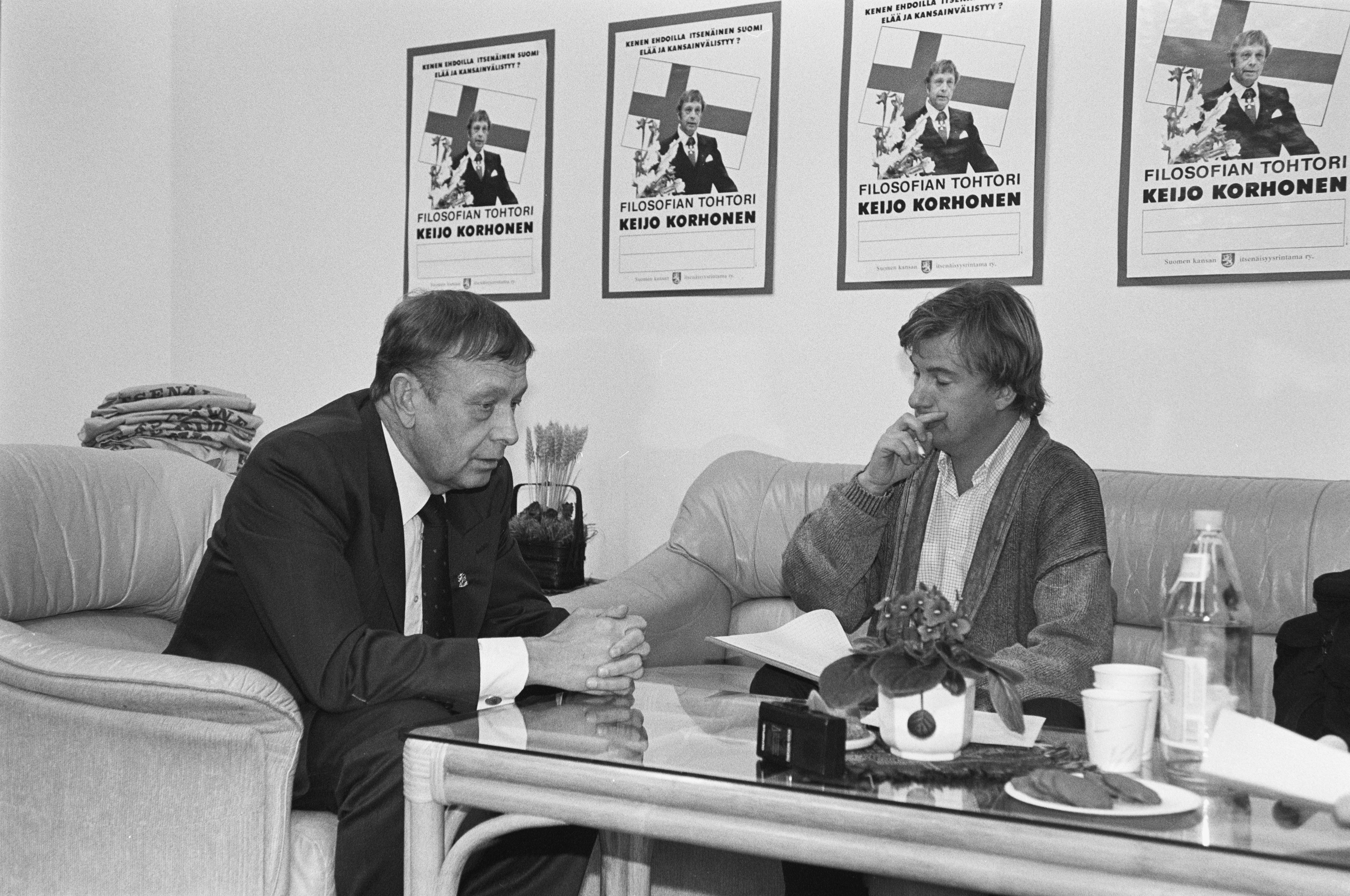 Photograph of the presidential candidate Keijo Korhonen (1934–) giving an interview of the journalist Staffan Bruun (1955–) of the Hufvudstadsbladet newspaper.